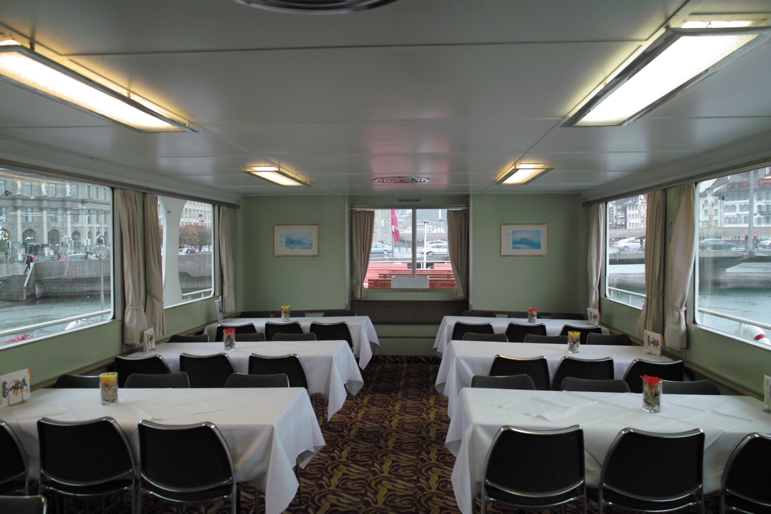 Lake Lucerne passenger ship Rigi, built in 1955. First class salon.